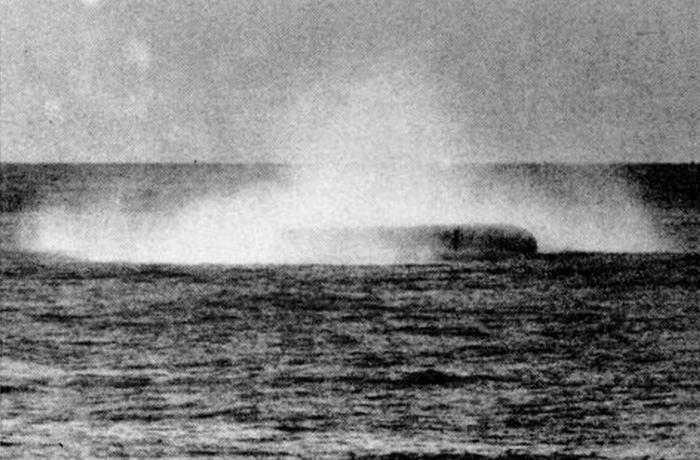 Pan Am Flight 6 Ditches